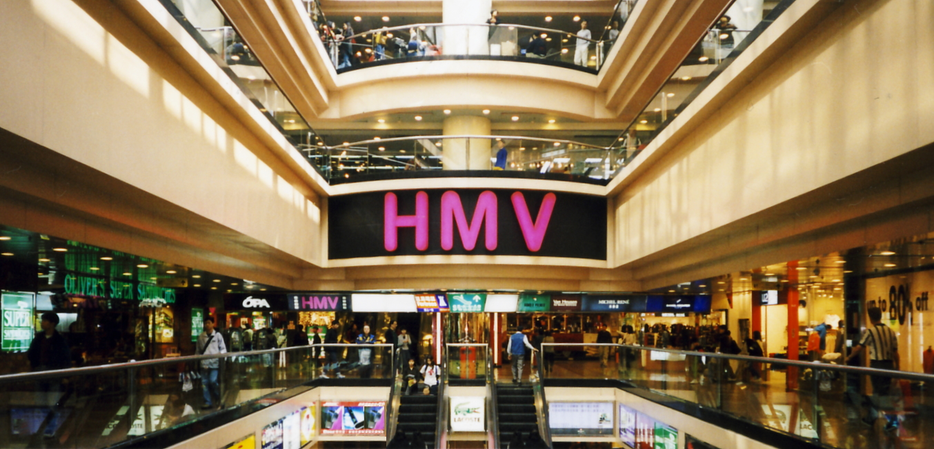 New Town Plaza East Void